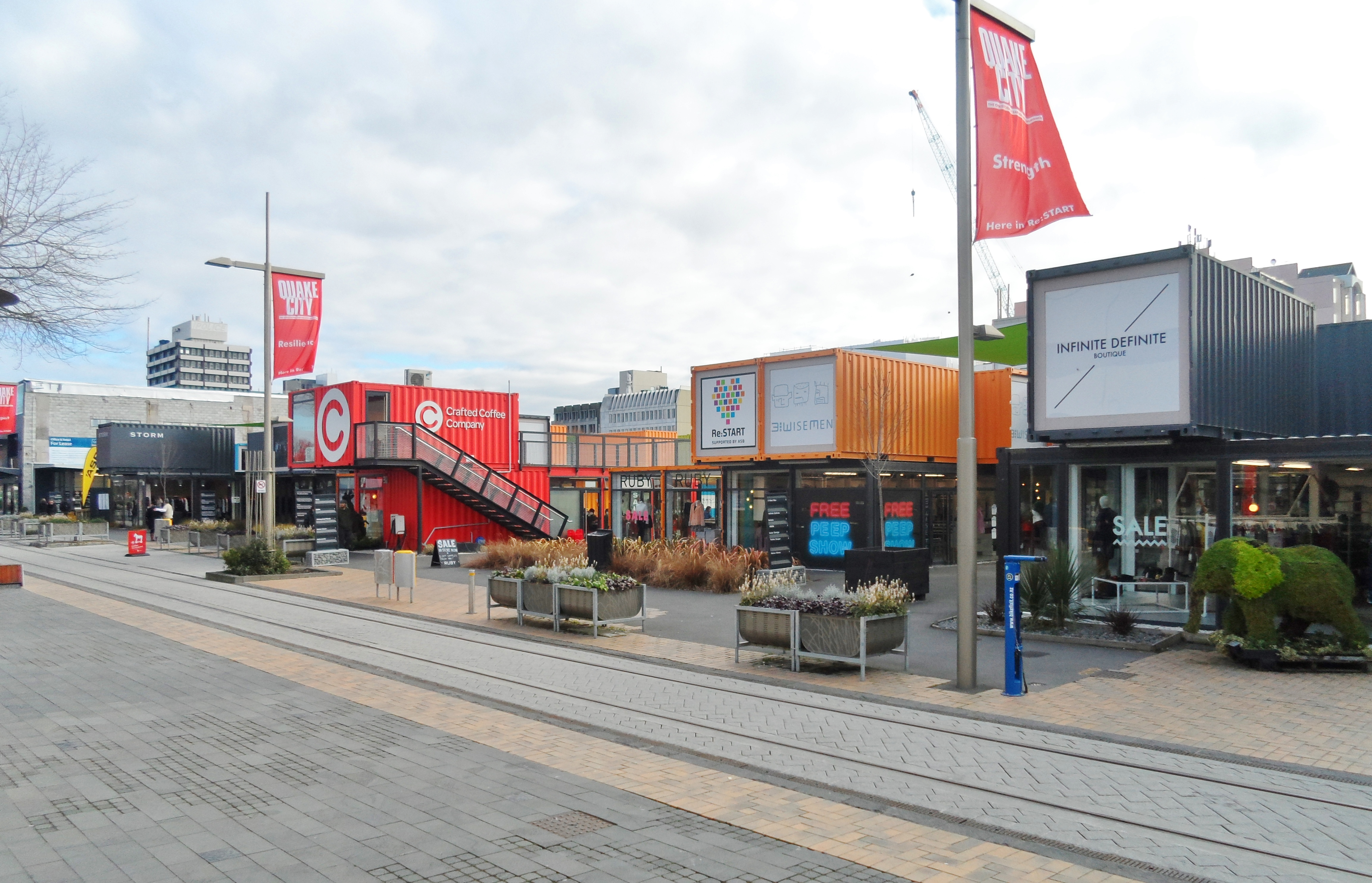 Re:START City Mall made of shipping containers in Christchurch, New Zealand in 2013.